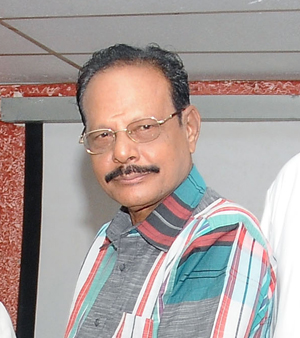 Tamil writer prapanchan